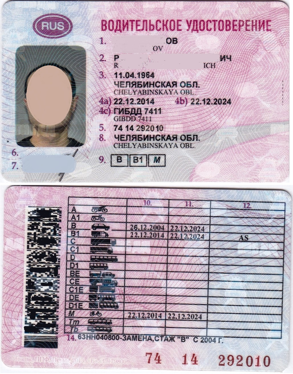 Both sides of Russian 2014 driving license